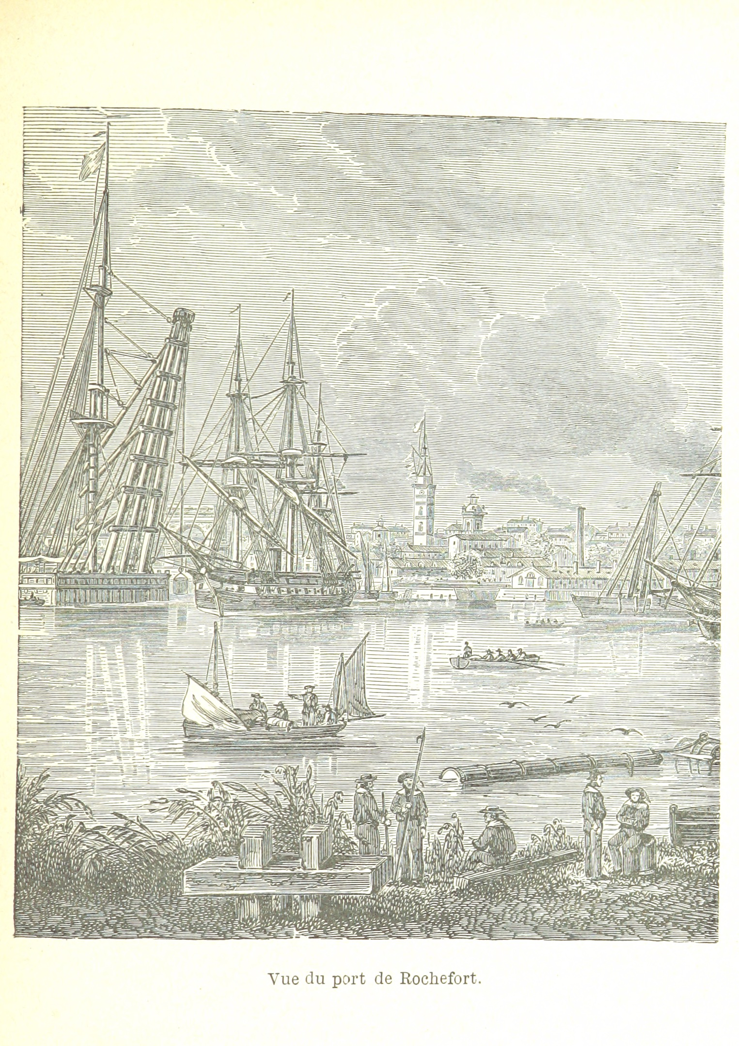 Image taken from: Title: "Les Cinq ports militaires de la France" Author: BENNASSI-DESPLANTES, François Jemmy. Shelfmark: "British Library HMNTS 10174.g.29." Page: 115 Place of Publishing: Limoges Date of Publishing: 1894 Issuance: monographic Identifier: 000272532 Explore: Find this item in the British Library catalogue, 'Explore'. Download the PDF for this book (volume: 0) Image found on book scan 115 (NB not necessarily a page number) Download the OCR-derived text for this volume: (plain text) or (json) Click here to see all the illustrations in this book and click here to browse other illustrations published in books in the same year. Order a higher quality version from here.